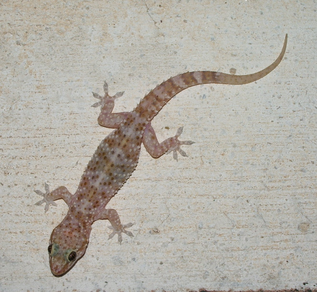 Gecko waiting for prey on a wall: Mediterranean House Gecko (Hemidactylus turcicus) in Messenia, Greece